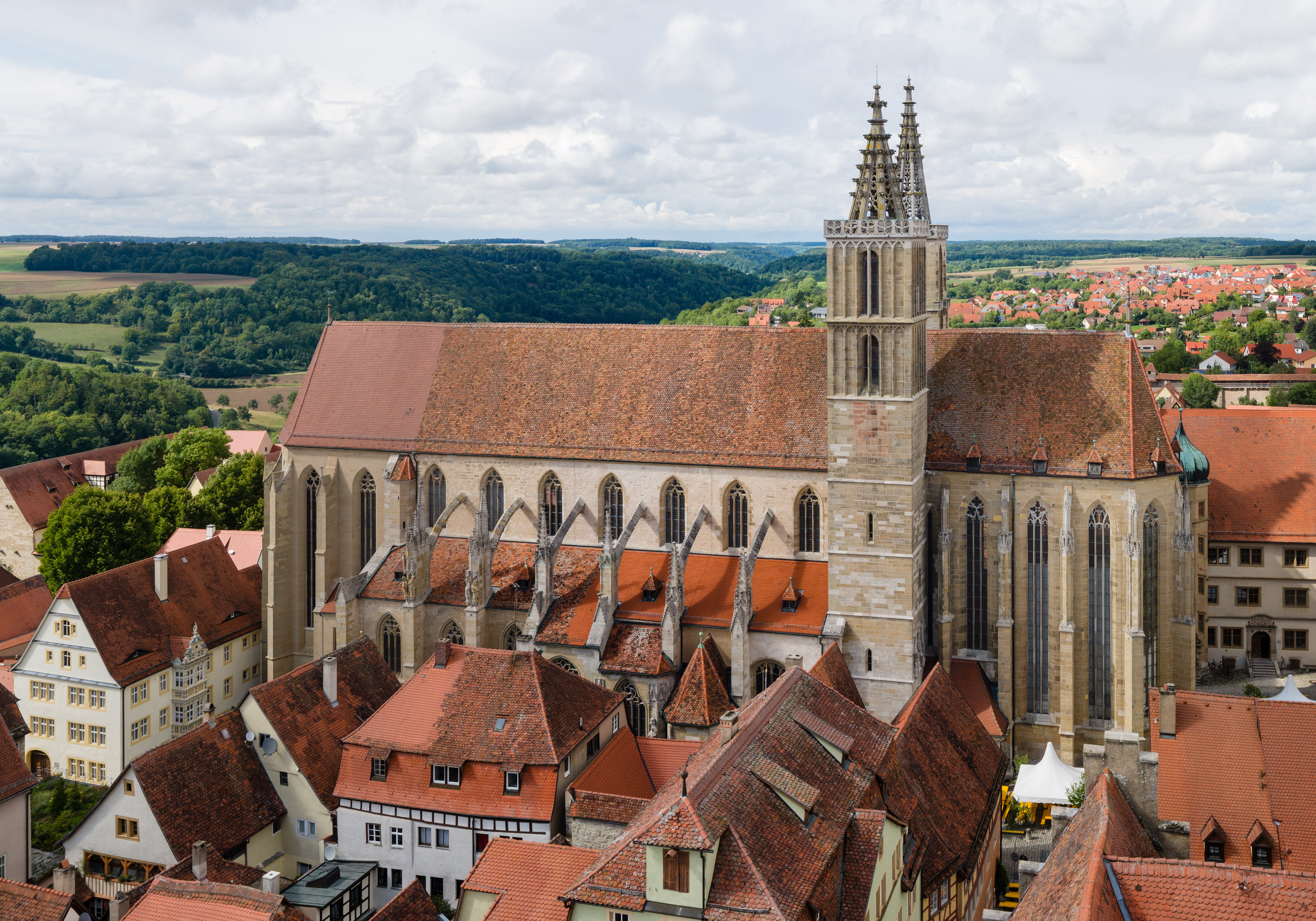 St. James's Church in Rothenburg ob der Tauber photographed from town hall tower